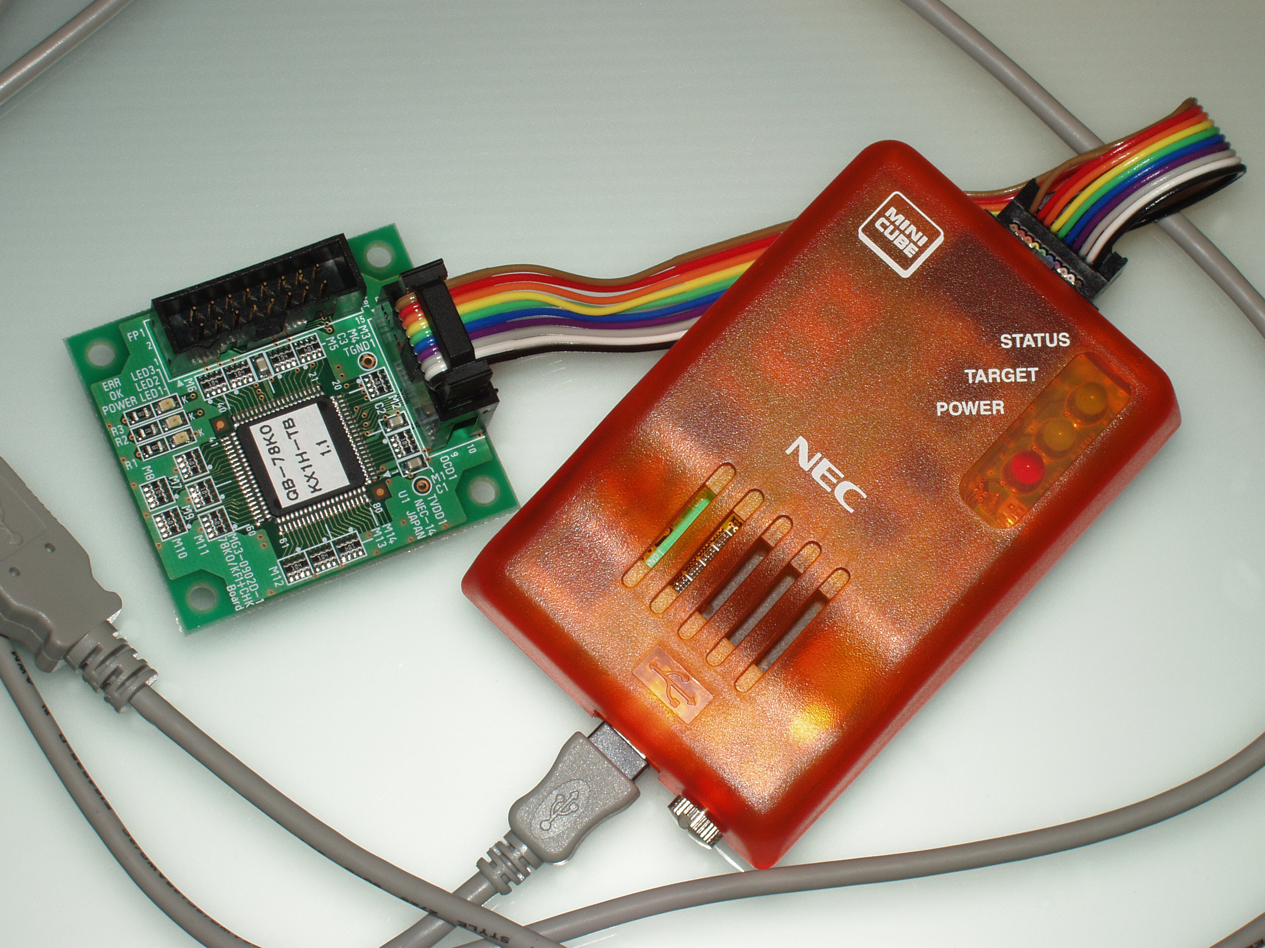 NEC Minicube (debugger, primary generation) dedicated for 78K0 Series and Targetboard